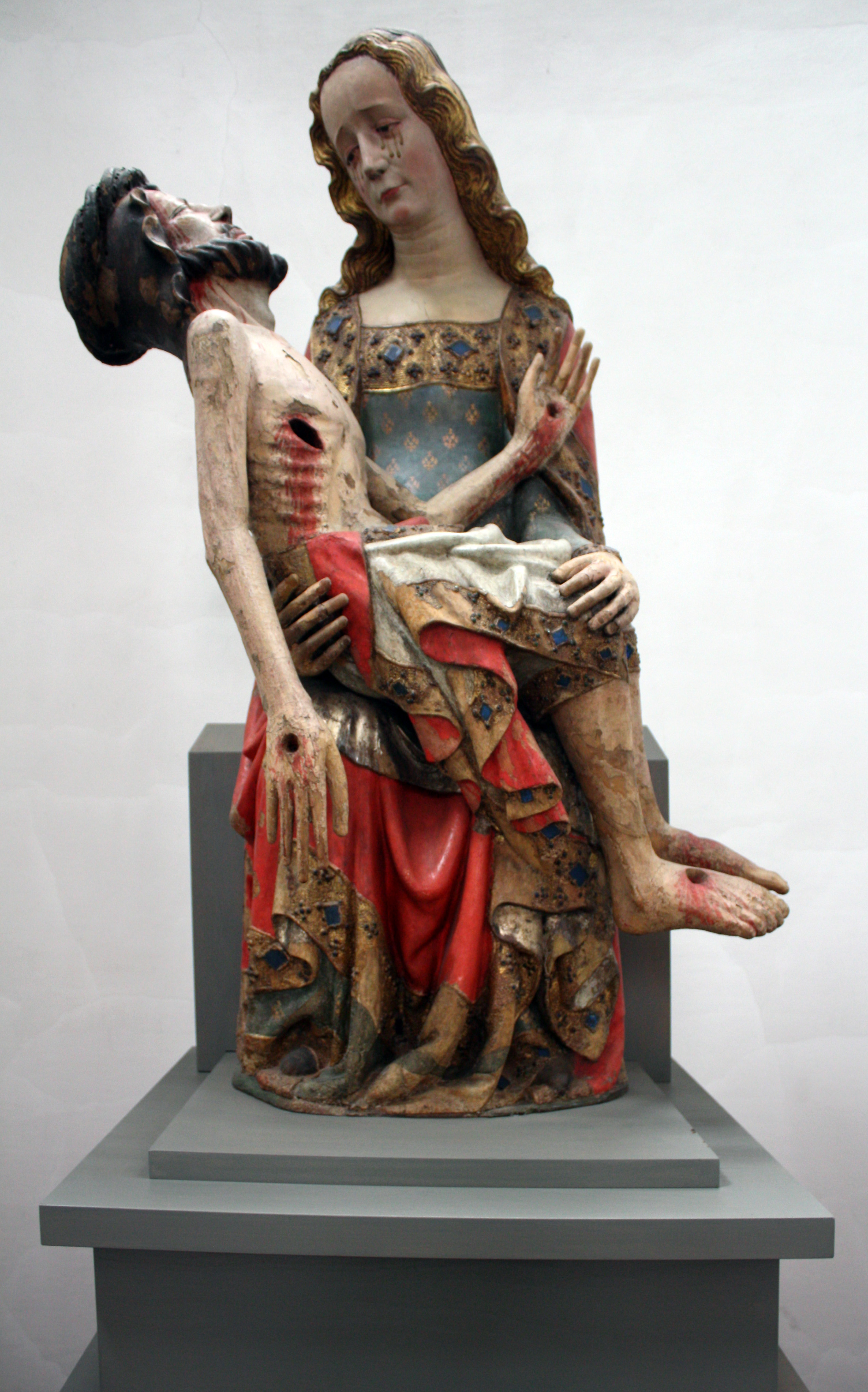 Pietà in woodcarving, height about 1,40 m. Cologne